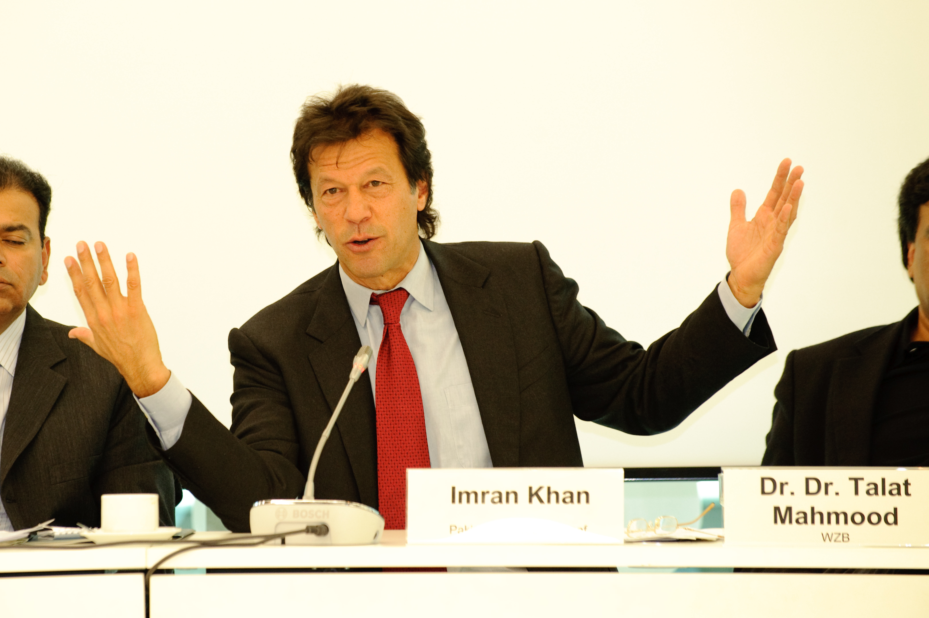 Imran Khan at the conference “Rule of Law: The Case of Pakistan” organized by Heinrich Böll Foundation on November 26, 2009 in Moabit, Berlin, Germany.